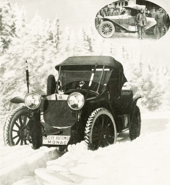 Entry #6 in 1912 Rallye Monte Carlo was a Russo-Baltique Torpédo S24-55. It was driven by Andrej Platonovics Nagel and Vagyim Alekszandrovics Mihajlov. They ended in 9th place.[1]